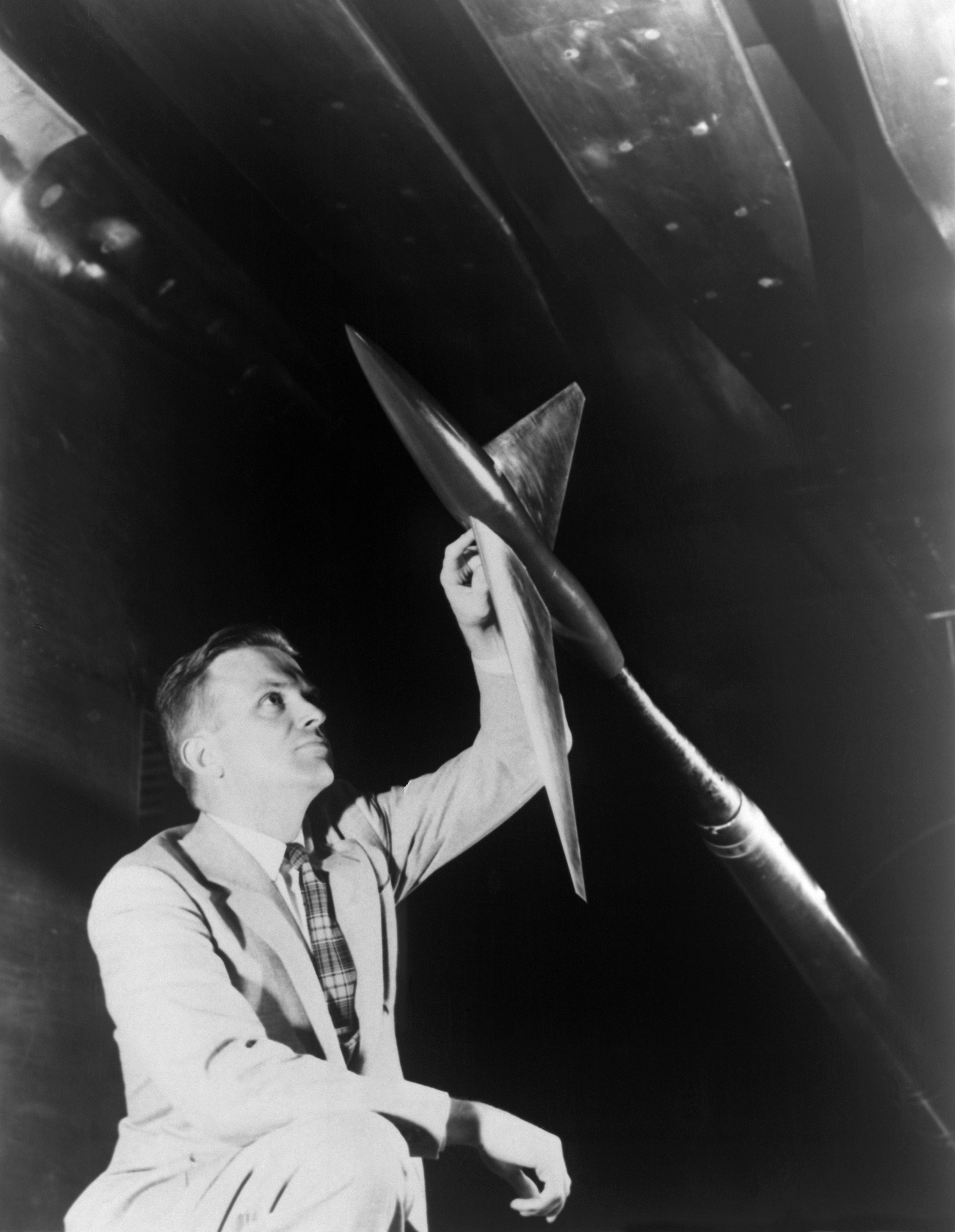 In the 8 foot High-Speed Tunnel in April 1955, Richard Whitcomb examines a model designed in accordance with his transonic area rule.